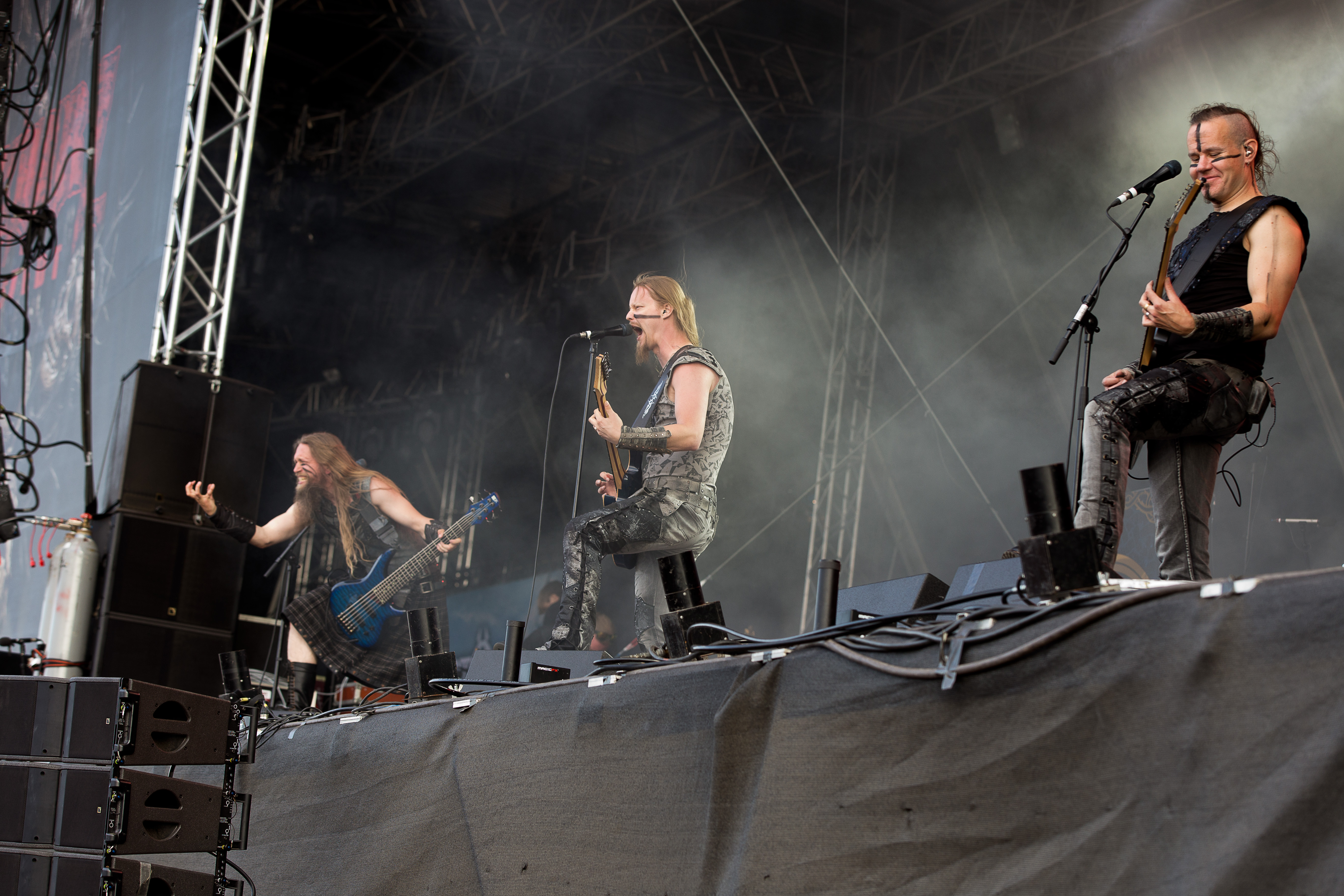 The Finnish folk metal band Ensiferum at the Rockharz Open Air 2016 in Ballenstedt/Germany.